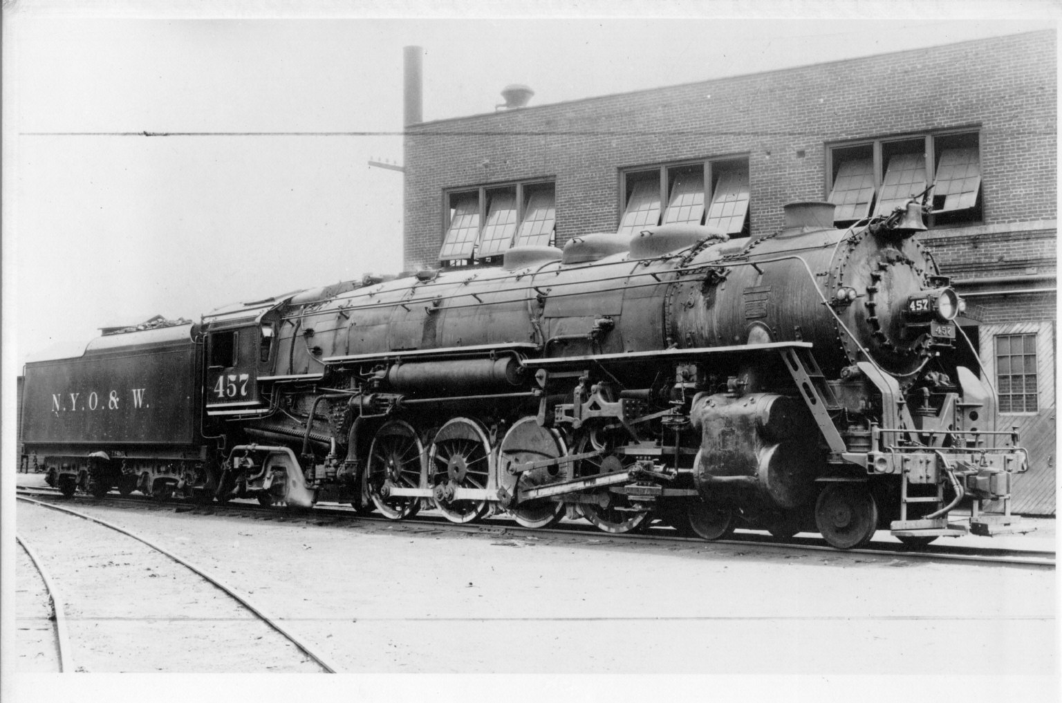 Collection: De Forest Douglas Diver Railroad Photographs, ca. 1870 - 1948, Cornell University Library Title: O&W Locomotive #457 Place: New York (State) Medium: Gelatin silver print Notes: Railroad: New York, Ontario and Western Railway (O&W); Engine #457; Class Y-2; Builder: American Locomotive Company; Built: 1929; Wheels: 4-8-2 Provenance: Diver, De Forest Douglas, 1878-1958, Collector Finding Aid: There are no known U.S. copyright restrictions on this image. The digital file is owned by the Cornell University Library which is making it freely available with the request that, when possible, the Library be credited as its source.